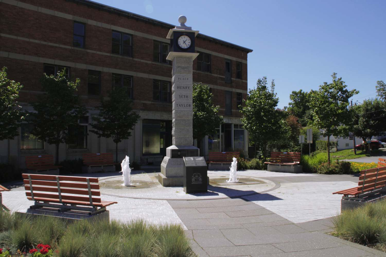 Henry Seth Taylor place in Stanstead, QC